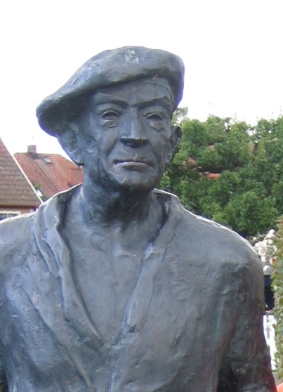 Fritiof Nilsson Piraten, statue in Kivik, Sweden